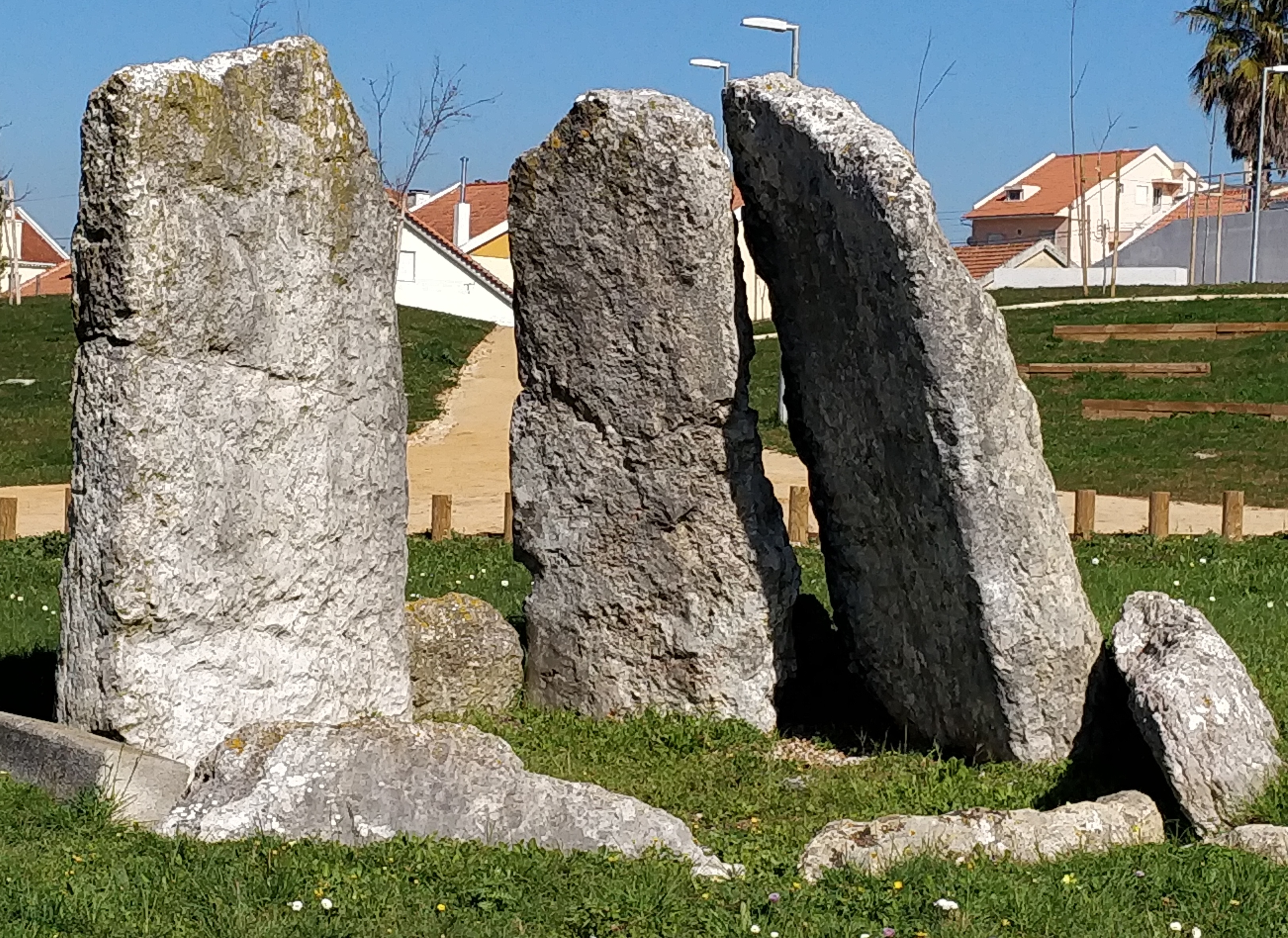 The recently recovered dolmen known as the Anta das Pedras Grandes in Odivelos municipality near Lisbon